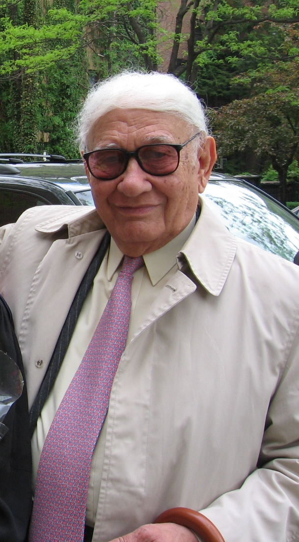 Photograph of Aldo Parisot taken at May 2005 Commencement, New Haven, CT